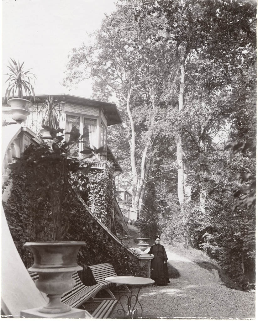 "Skraenten" at Skodsborg in Sjaelland - the summer residence of the tobacco manufacturer and art collector Heinrich Hirschsprung. On the photo the garden pavilion with the Italian steps.